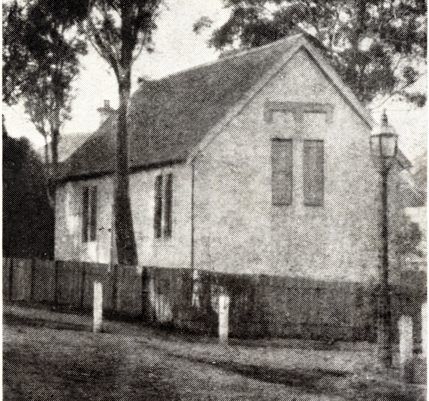 St John's Ashfield old school room. (crop of File:StJohnsAshfield Centenary Sutton p19 Old School Room.jpg)